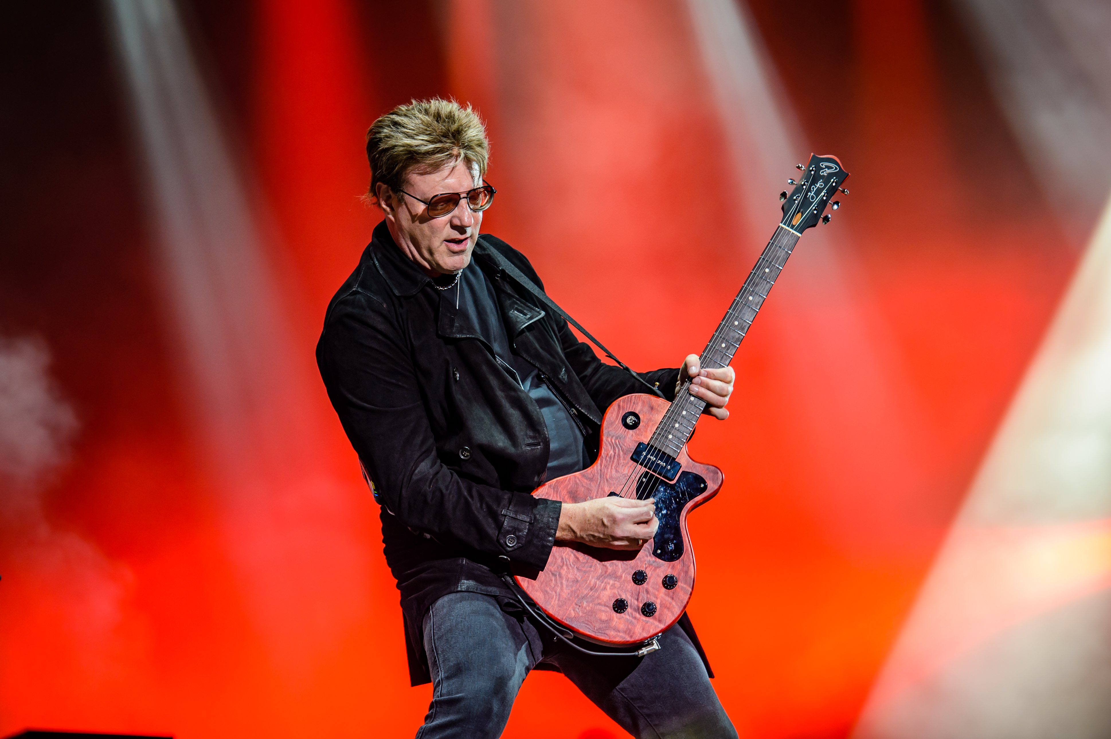 Twisted Sister; Wacken Open Air 2016